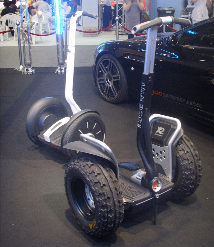 Two kinds of Segway PTs.